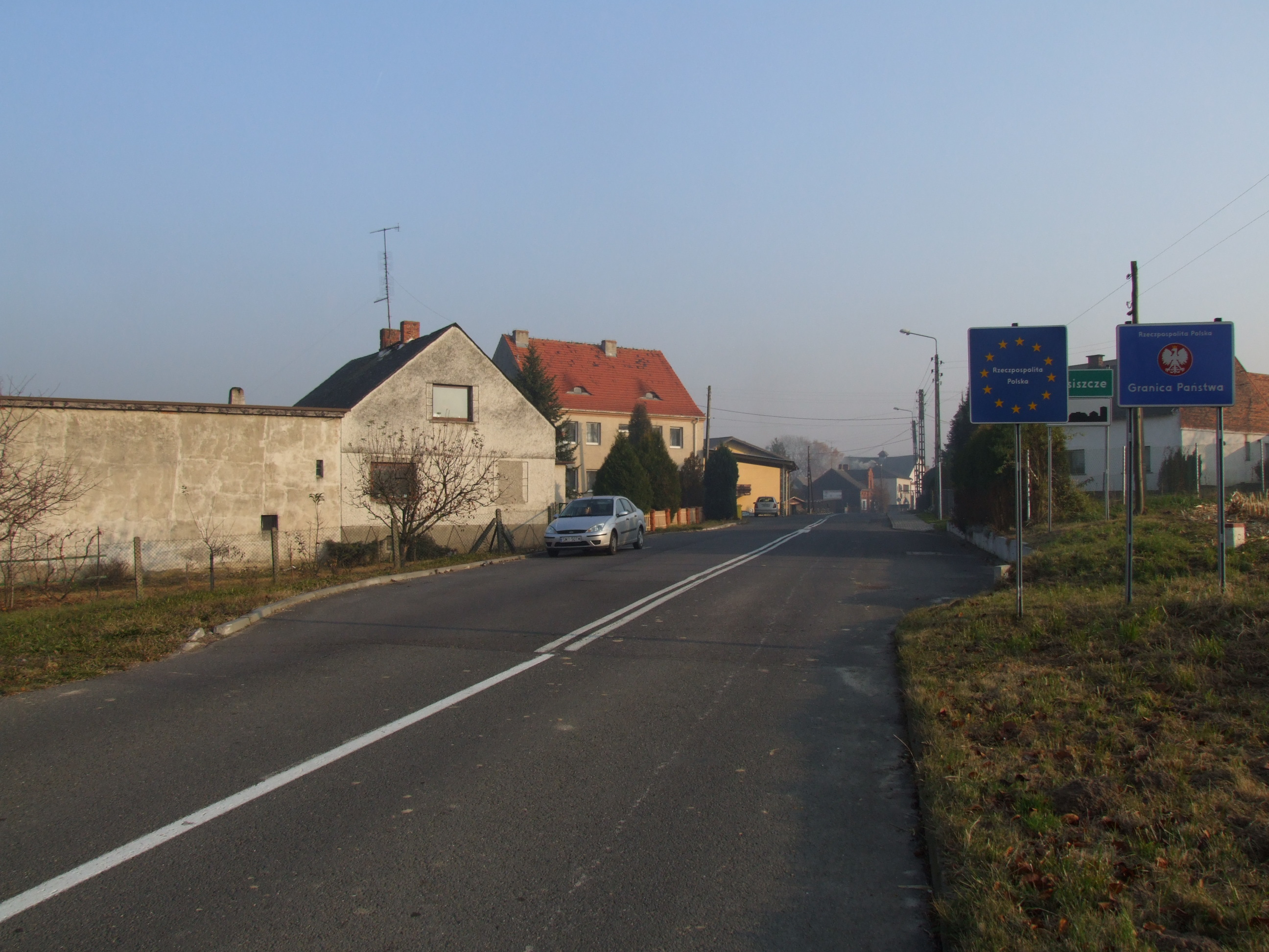 Formery border crossing Owsiszcze-Píšť